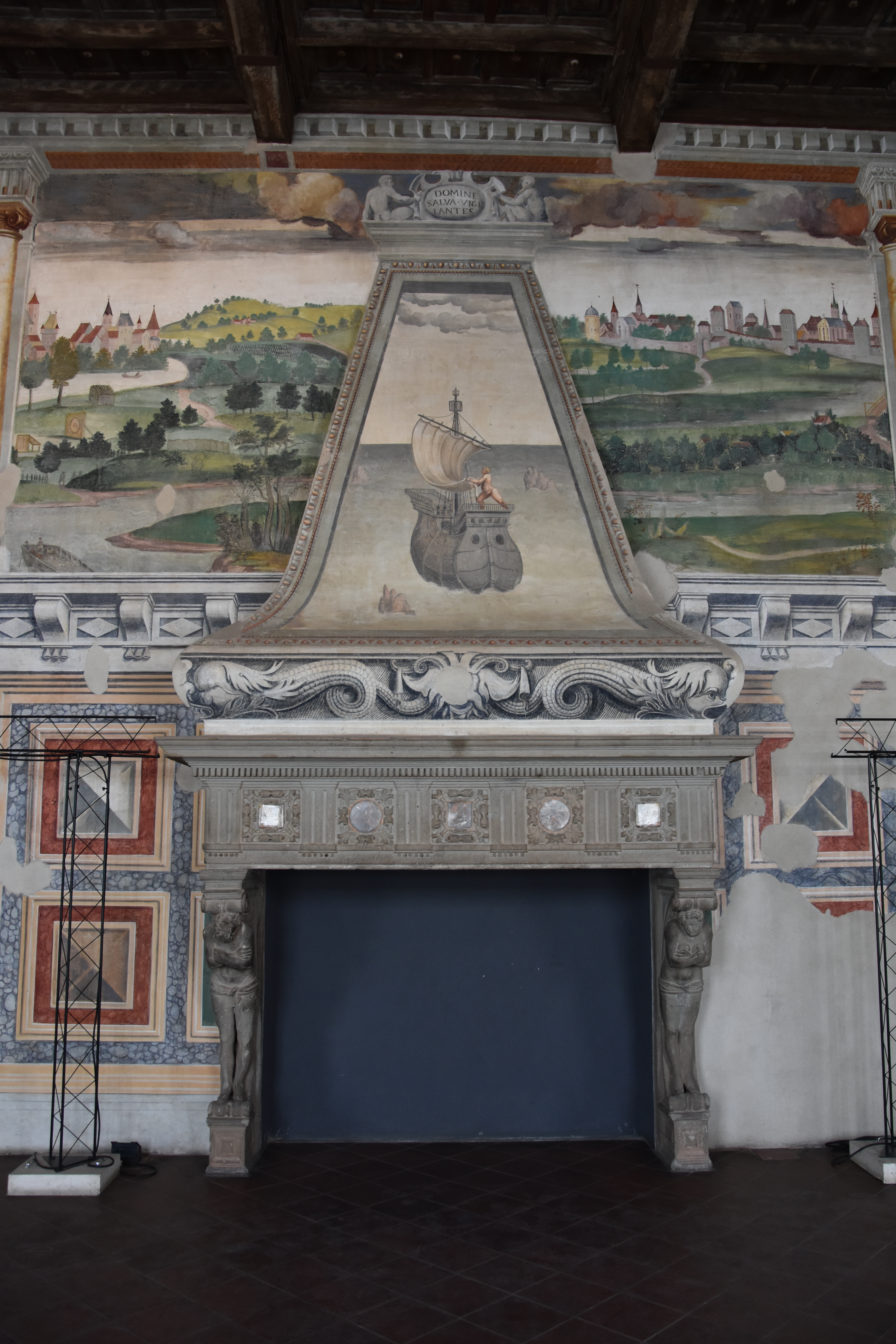 Castello di Melegnano, sala del'imperatore, camino e affreschi cinquecenteschi.